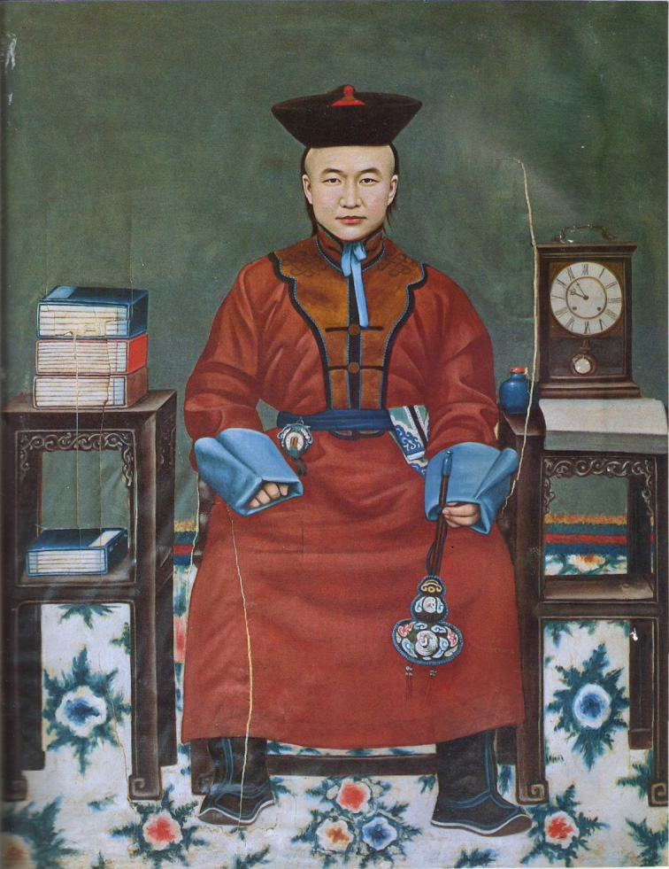 Sonomtseren, Tusheet-khan Nasantogtokh, 56.5×45, paiting, mineral paints, Fine Arts Museum